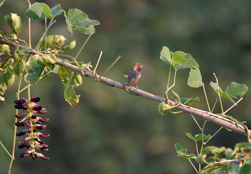 Velvet bean, Cowitch, Cowhage or Konch Mucuna pruriens in Kawal Wildlife Sanctuary, Andhra Pradesh, India.